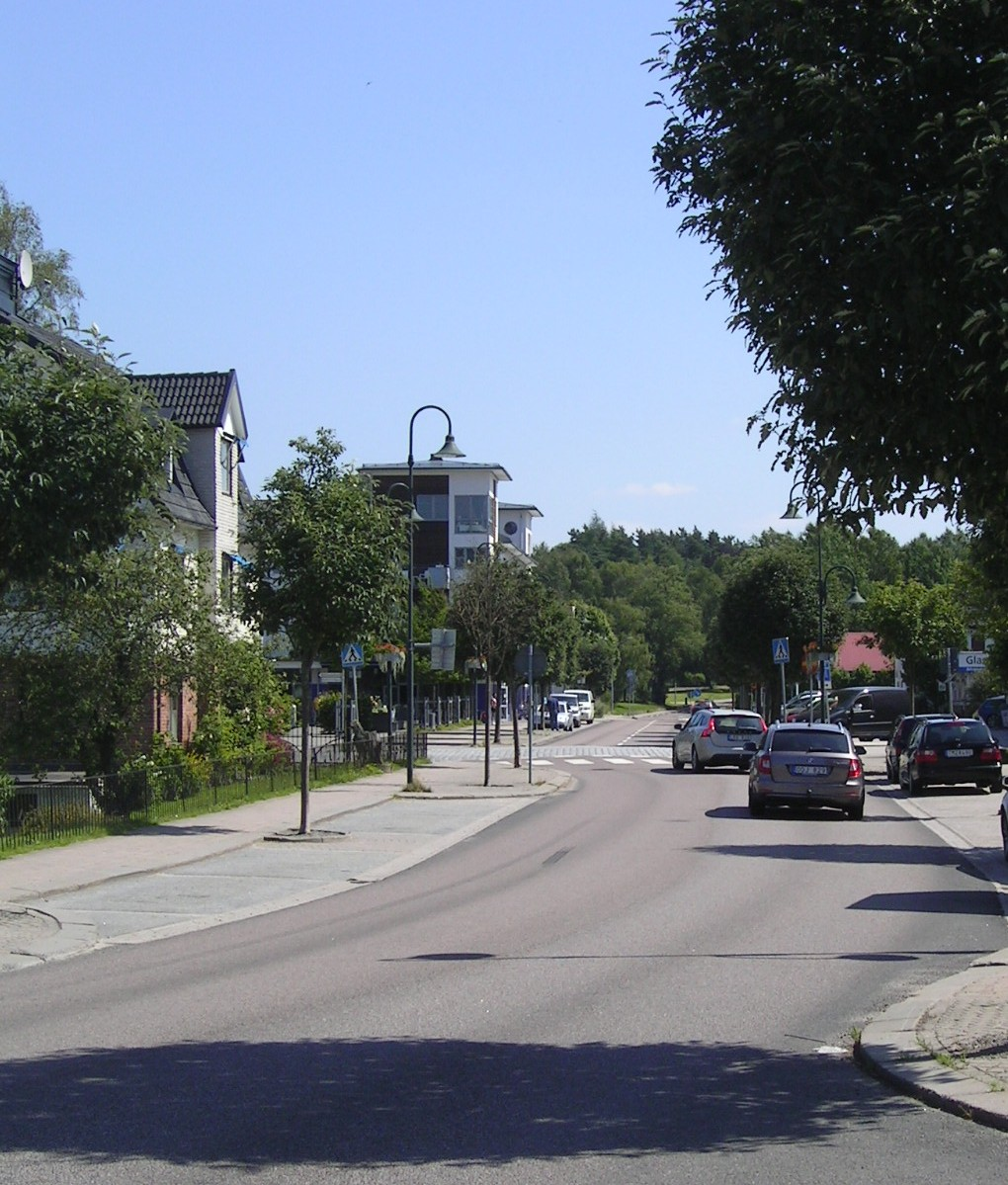 Main street of Bollebygd, Västra Götaland County, Sweden